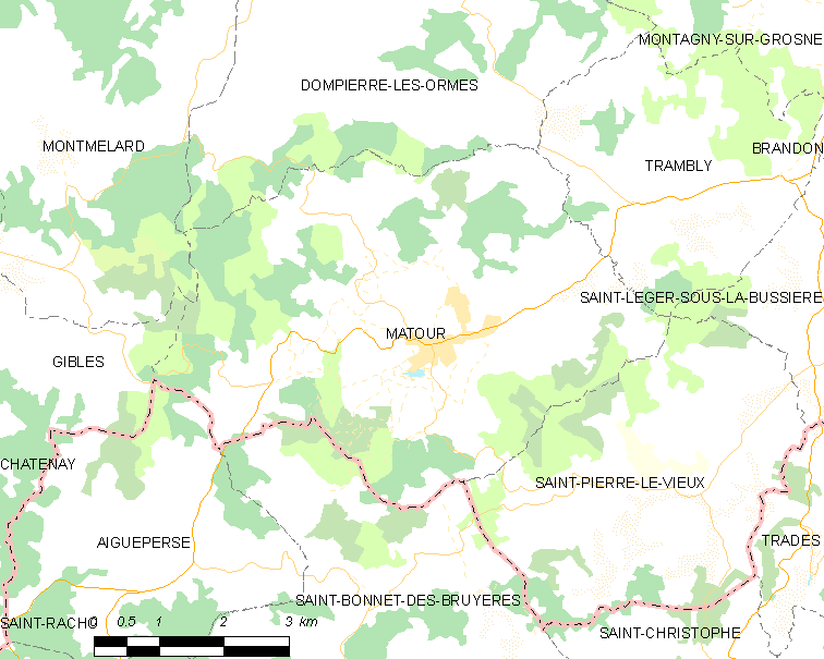 Map of French municipality